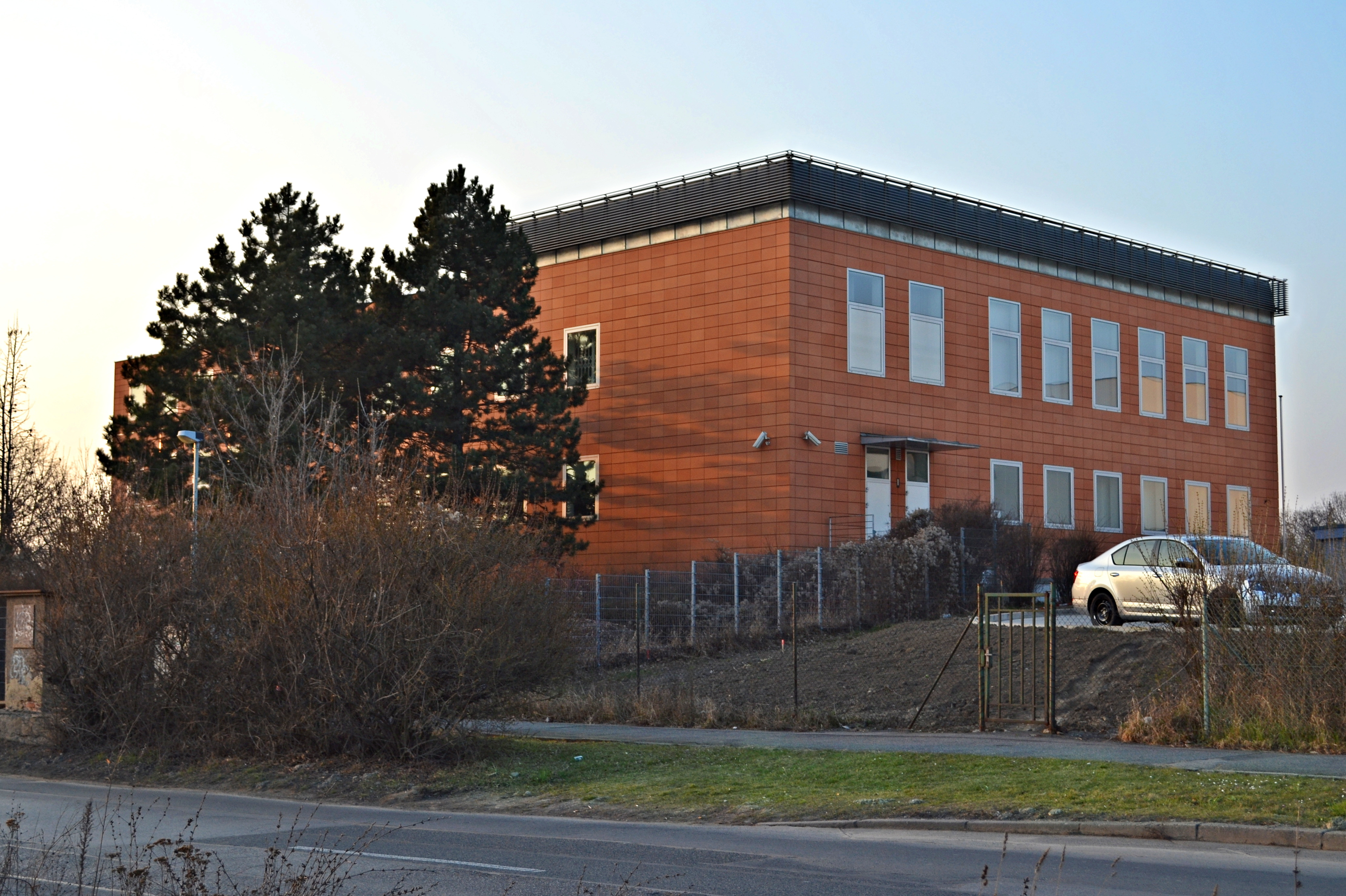 The headquarters of Generální inspekce bezpečnostních sborů, Skokanská 2311/3, Prague 6 - Břevnov, Czech Republic.